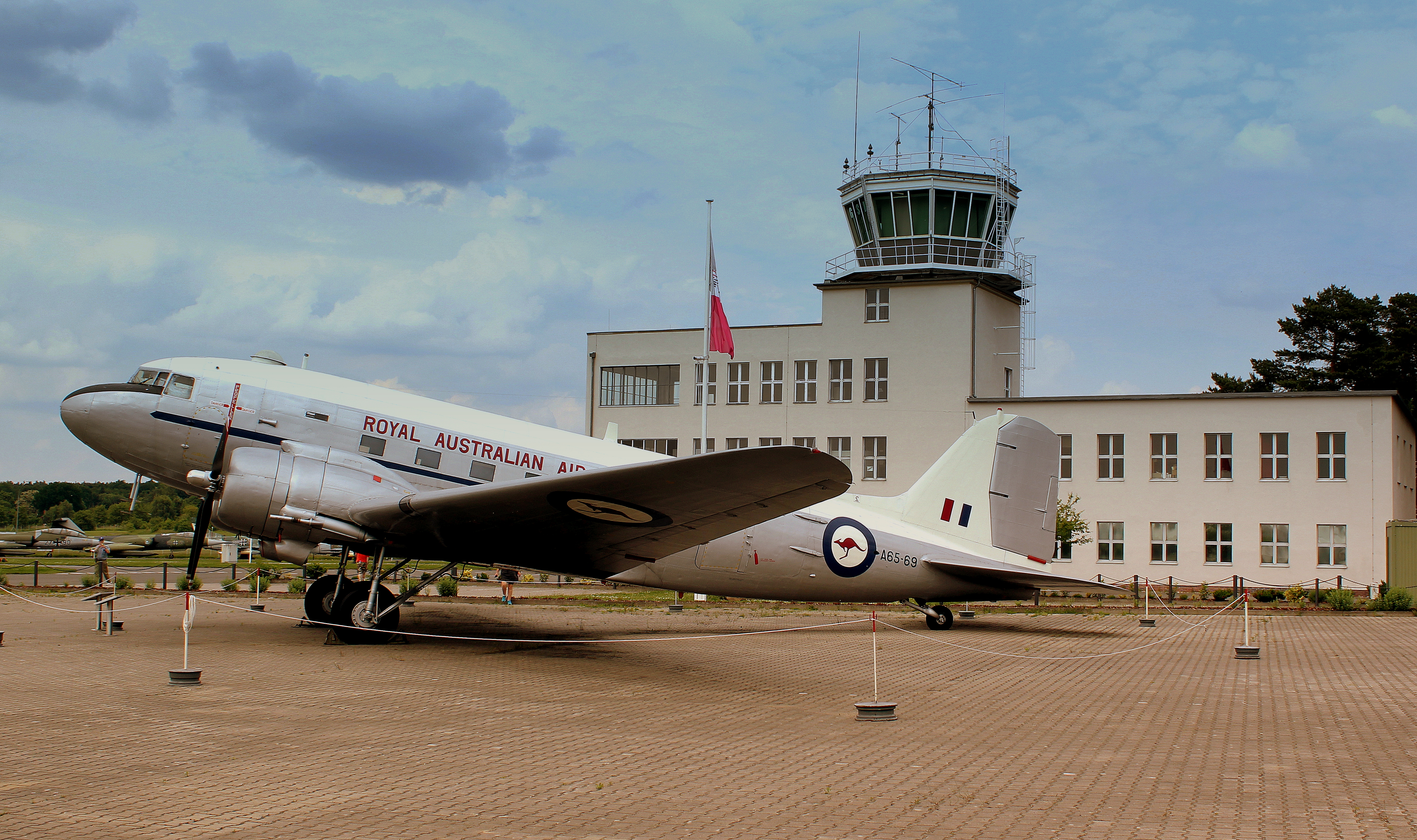 ROYAL AUSTRALIAN AIR FORCE DOUGLAS C47 OUTSIDE THE CONTROL TOWER OF RAF GATOW BERLIN NOW THE LUFTWAFFEN MUSEUM GERMANY JUNE 2013